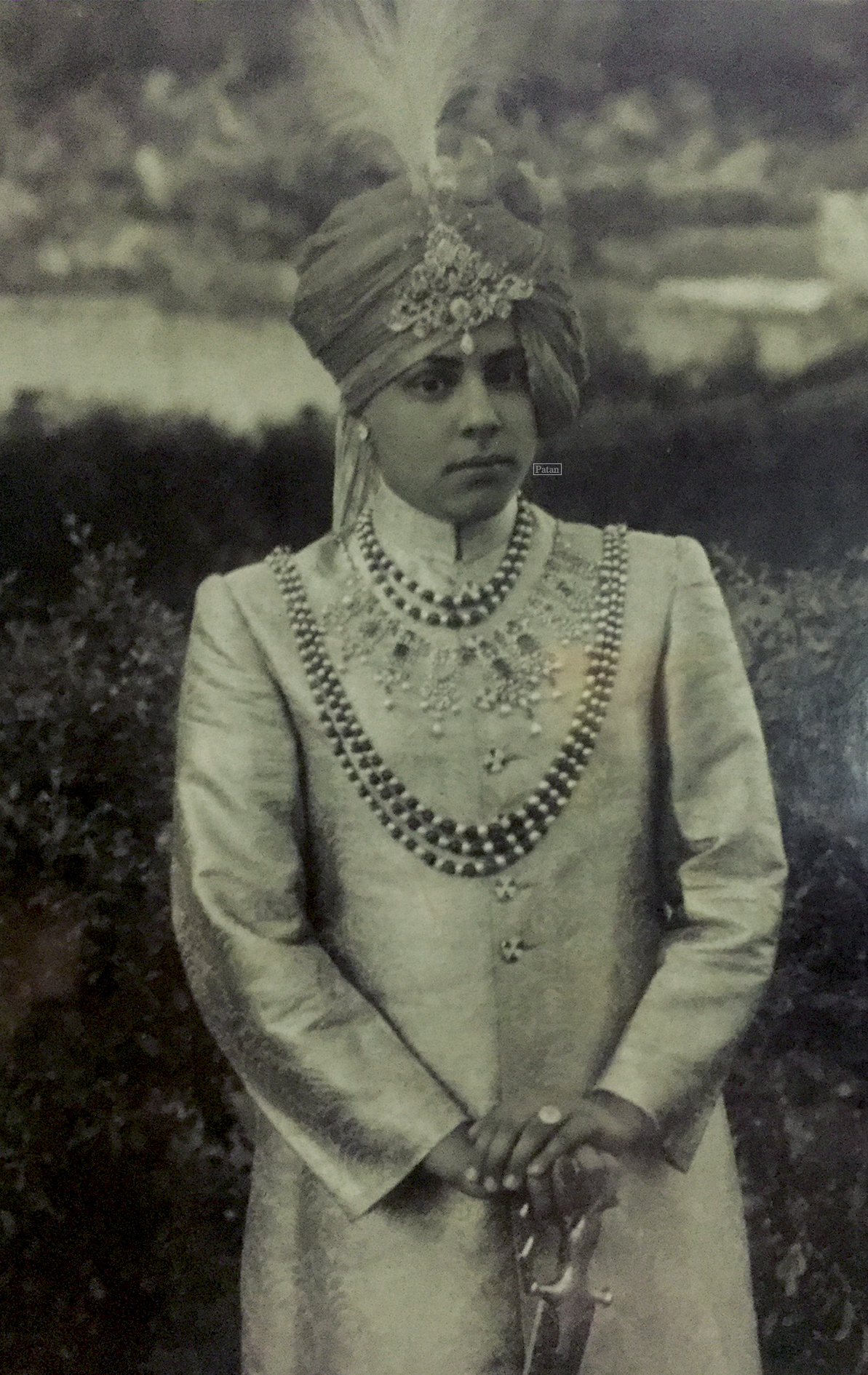 Rajkumar Bir Bikram Singh Patan